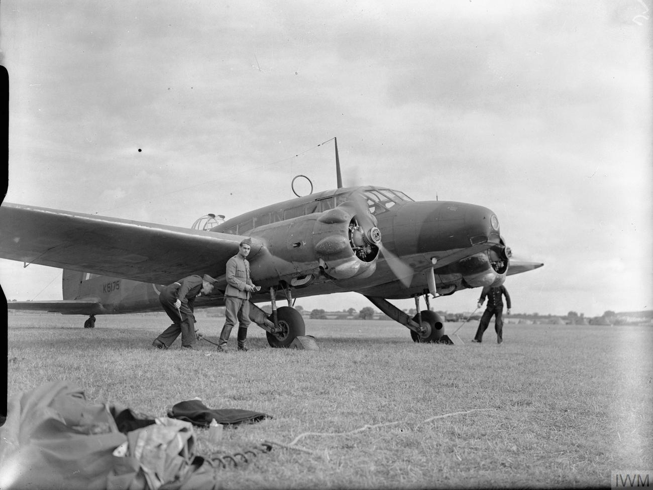 Royal Air Force Coastal Command, 1939-1945. The wheel chocks are removed from Avro Anson Mark I, K6175, of No. 320 (Dutch) Squadron RAF before taking off on a patrol from Carew Cheriton, Pembrokeshire. The unit code letters ('OY') of No. 48 Squadron RAF, to whom the aircraft formerly belonged, can be made out faintly on the fuselage side.